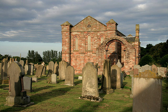 Evening light on Coldingham Priory